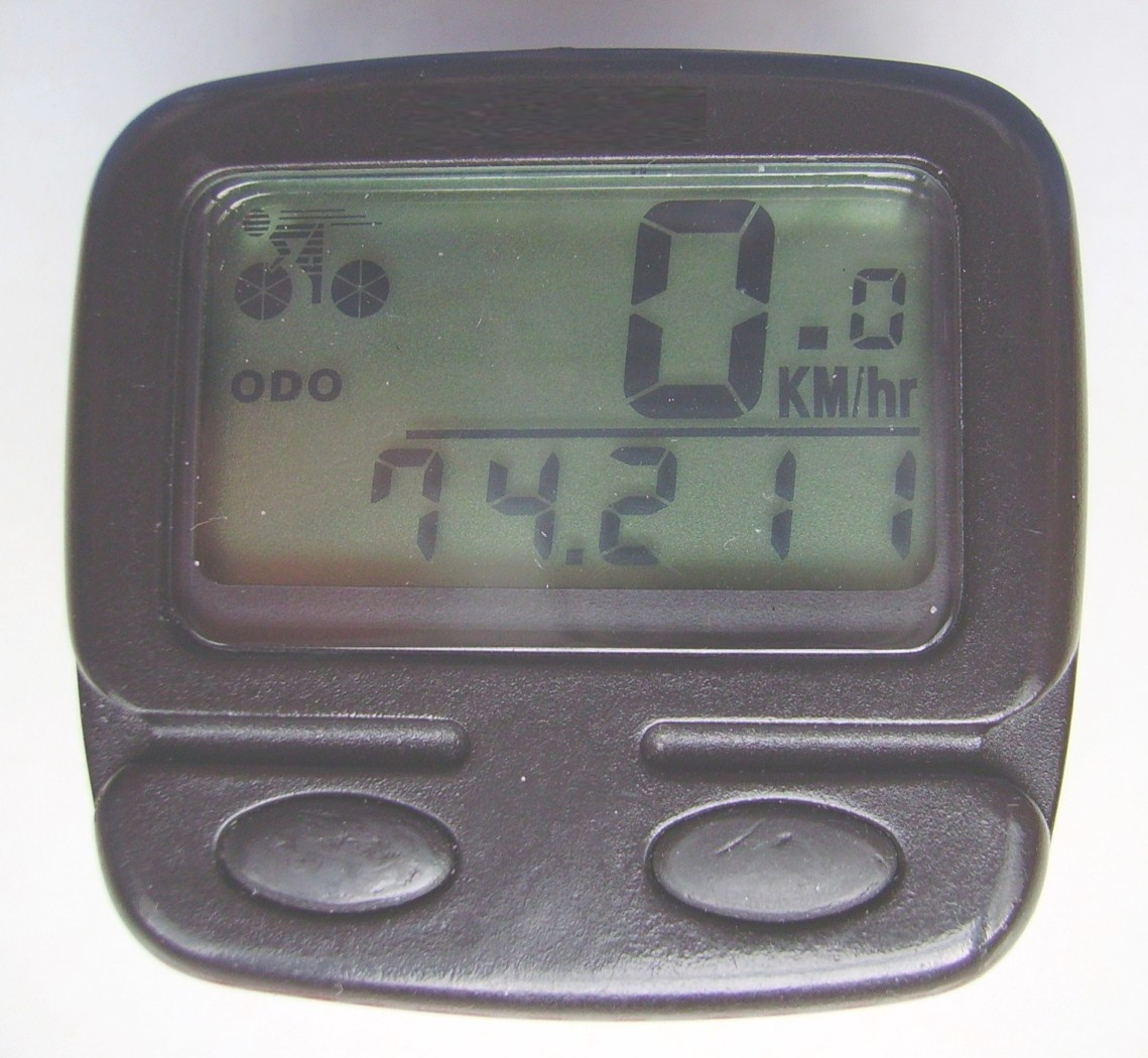 Basic cyclocomputer ODO means « odometer » (display : 74.211 km) Weight : 20 g